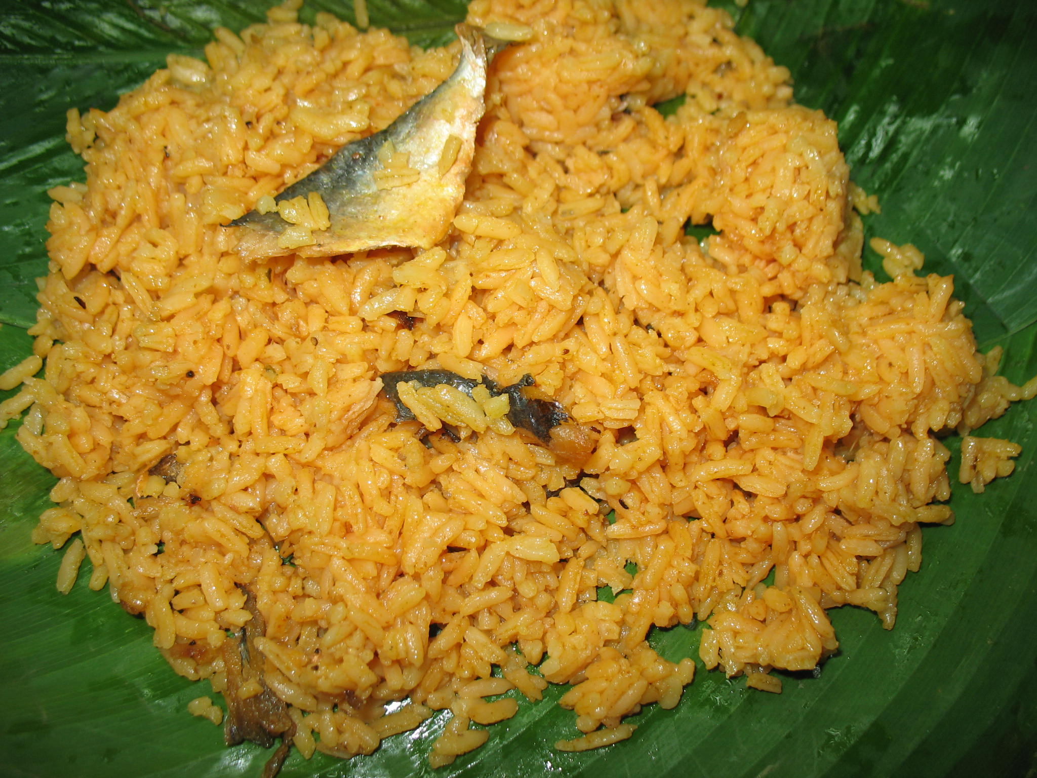 Liza rice